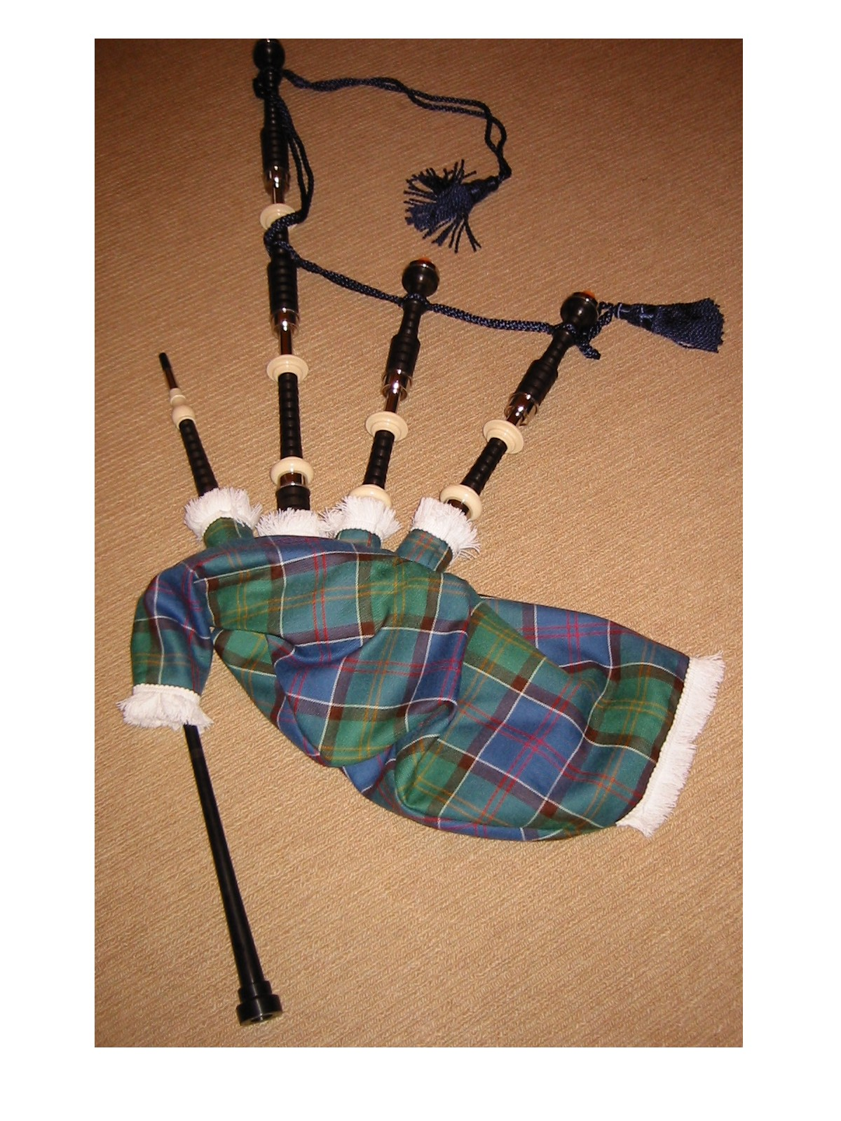 Great Highlands Bagpipe, ugs. auch Dudelsack, mit dem Tartanmuster des County Ayrshire